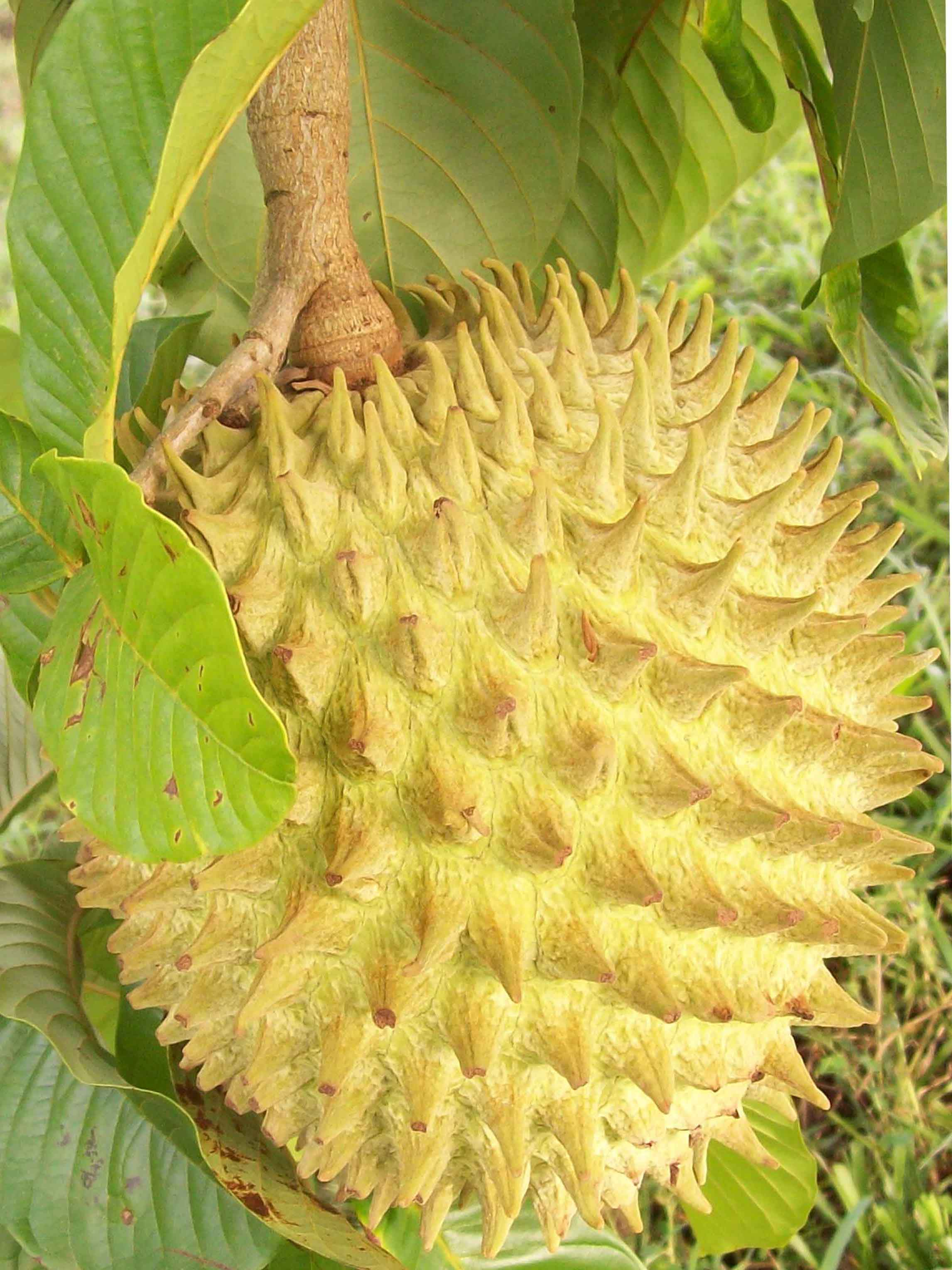 Fruto de la comumente conocida Guanacona